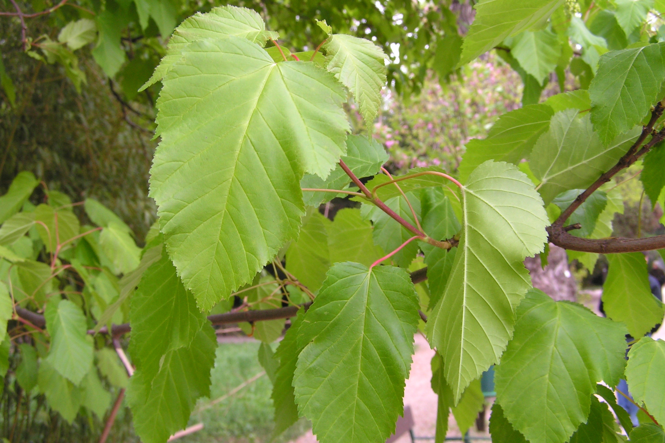 Acer tataricum ssp. tataricum in the Botanical Garden of the University of Vienna